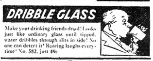 Jo-Jo #11, Page 35 February 1948